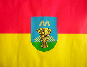 Flag of Myhajlivskyj district (Ukraine)